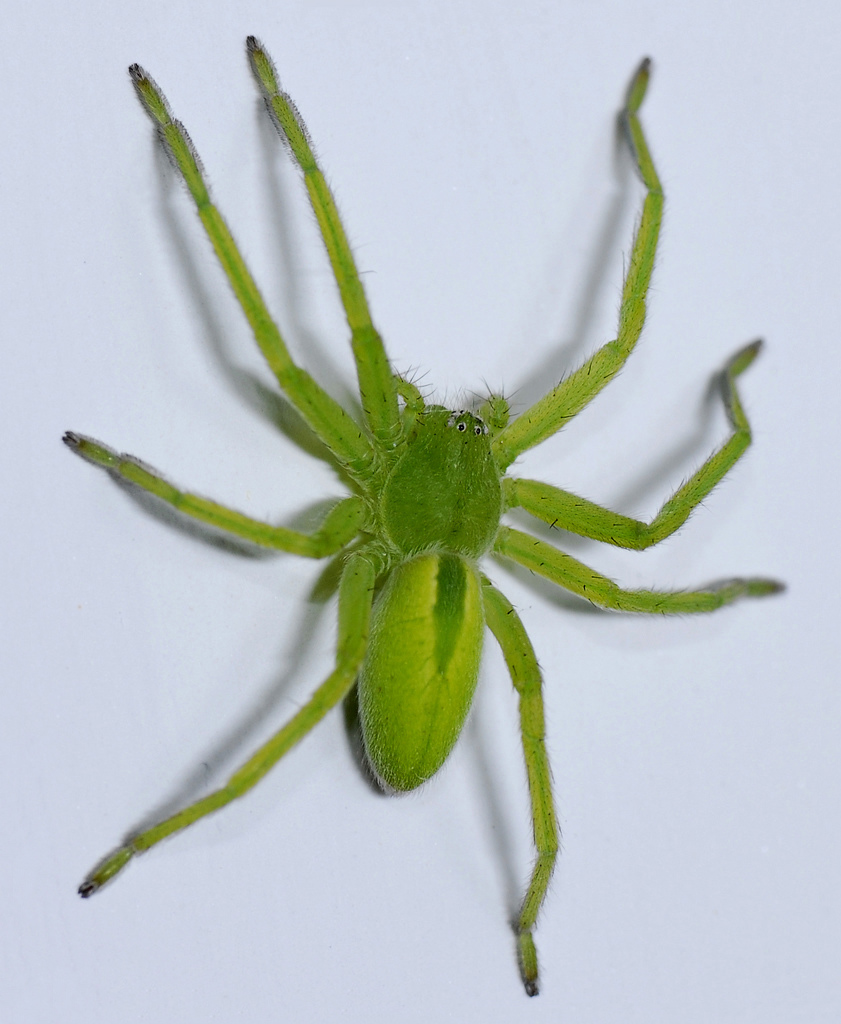 A Green huntsman spider (Micrommata virescens) in Italy.